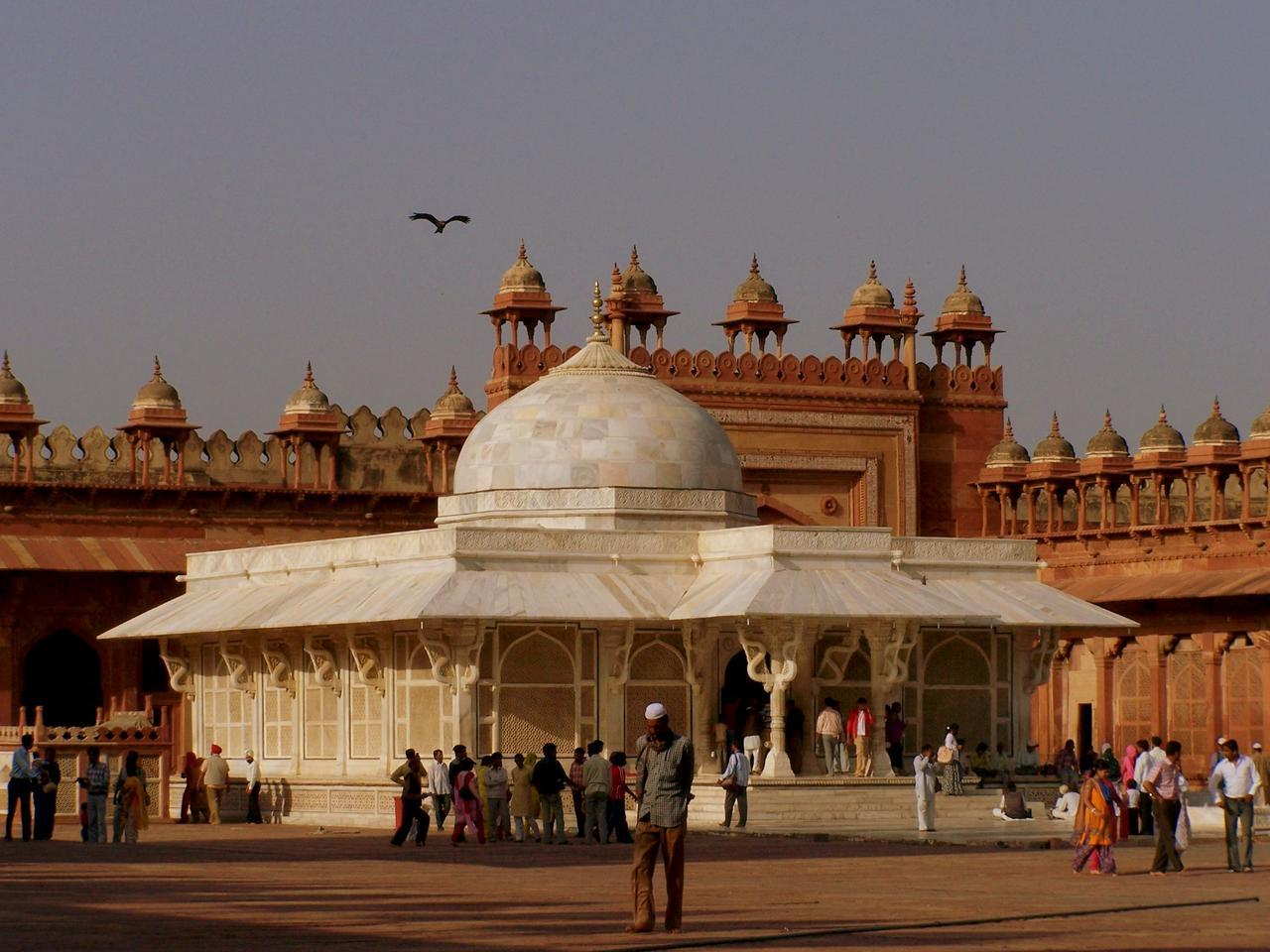 Salim Chishti's Tomb at Fathepur Sikri, near Agra, India on march 18th 2007